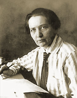 Yevgenia Bosch (Евгения Богдановна Бош) (1879-1925) Bolshevik activist, politician, and member of the Soviet government in Ukraine during the revolutionary period earlier in the 20th century.